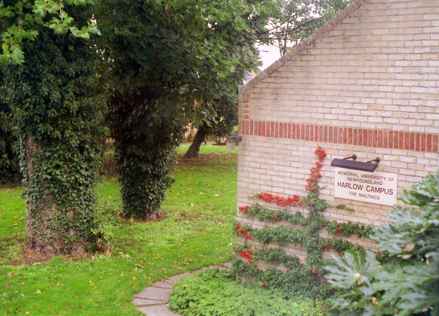 Old Harlow Campus of Memorial University of Newfoundland, Canada